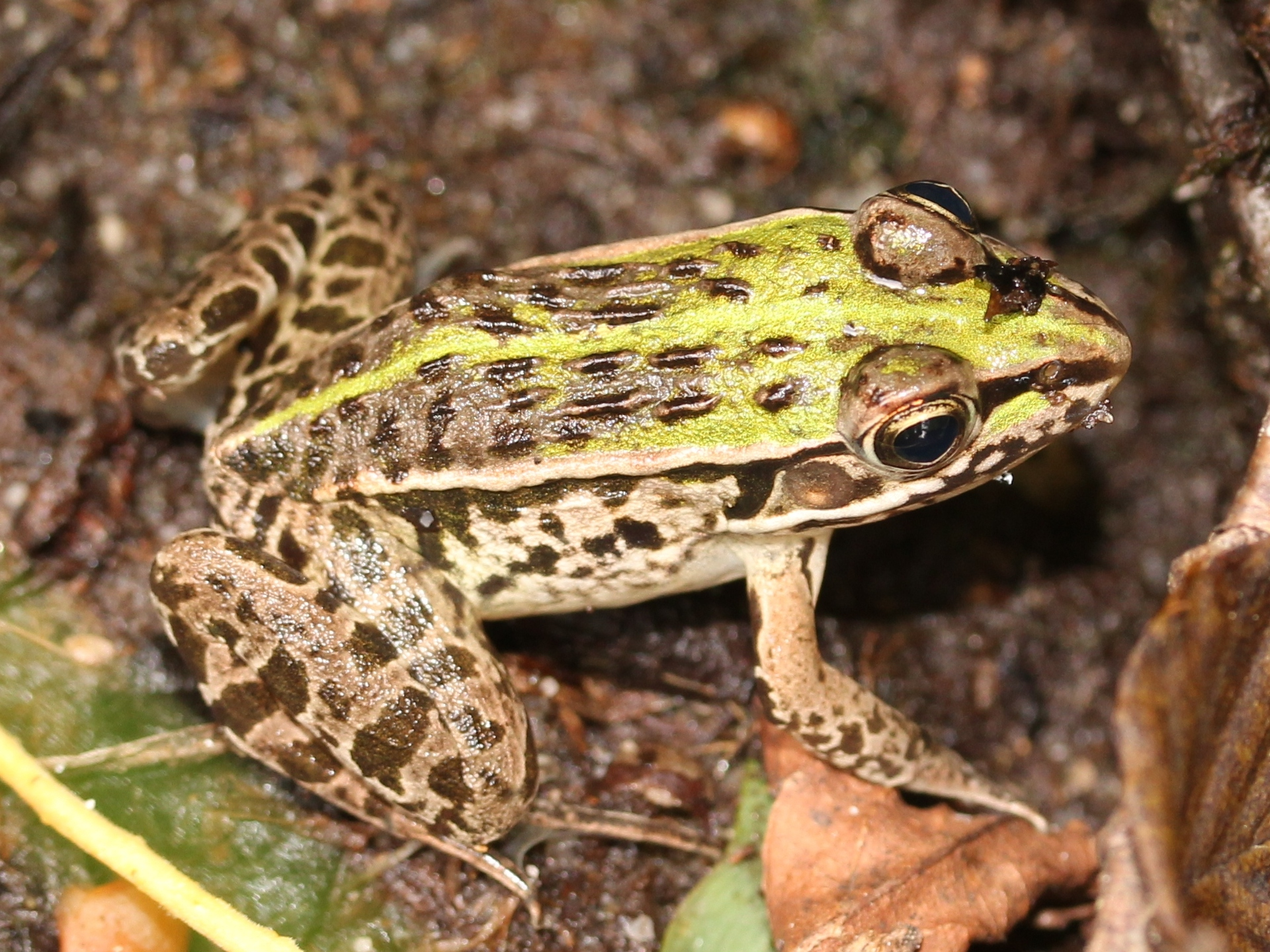 Dark-spotted frog (Pelophylax nigromaculatus), in Japan.